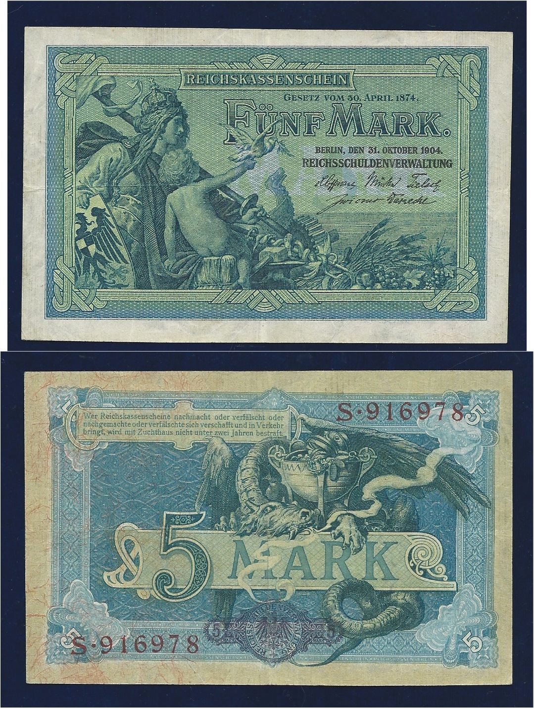 German 5 Mark 1904 Reichskassenschein. Reichsschuldenverwaltung Berlin, Germany, 31 October 1904. Pick 8a (6 digits). Crowned Germania sitting by the sea and carrying a lance and a shield showing the German eagle. Around her, various symbols of agriculture, industry, trade and shipping. A naked boy releases a dove. / A dragon safeguarding a treasure. Design by Alexander Zick, 1845 Koblenz - 1907 Berlin. Condition: A clean and fairly crisp VERY FINE bank note.